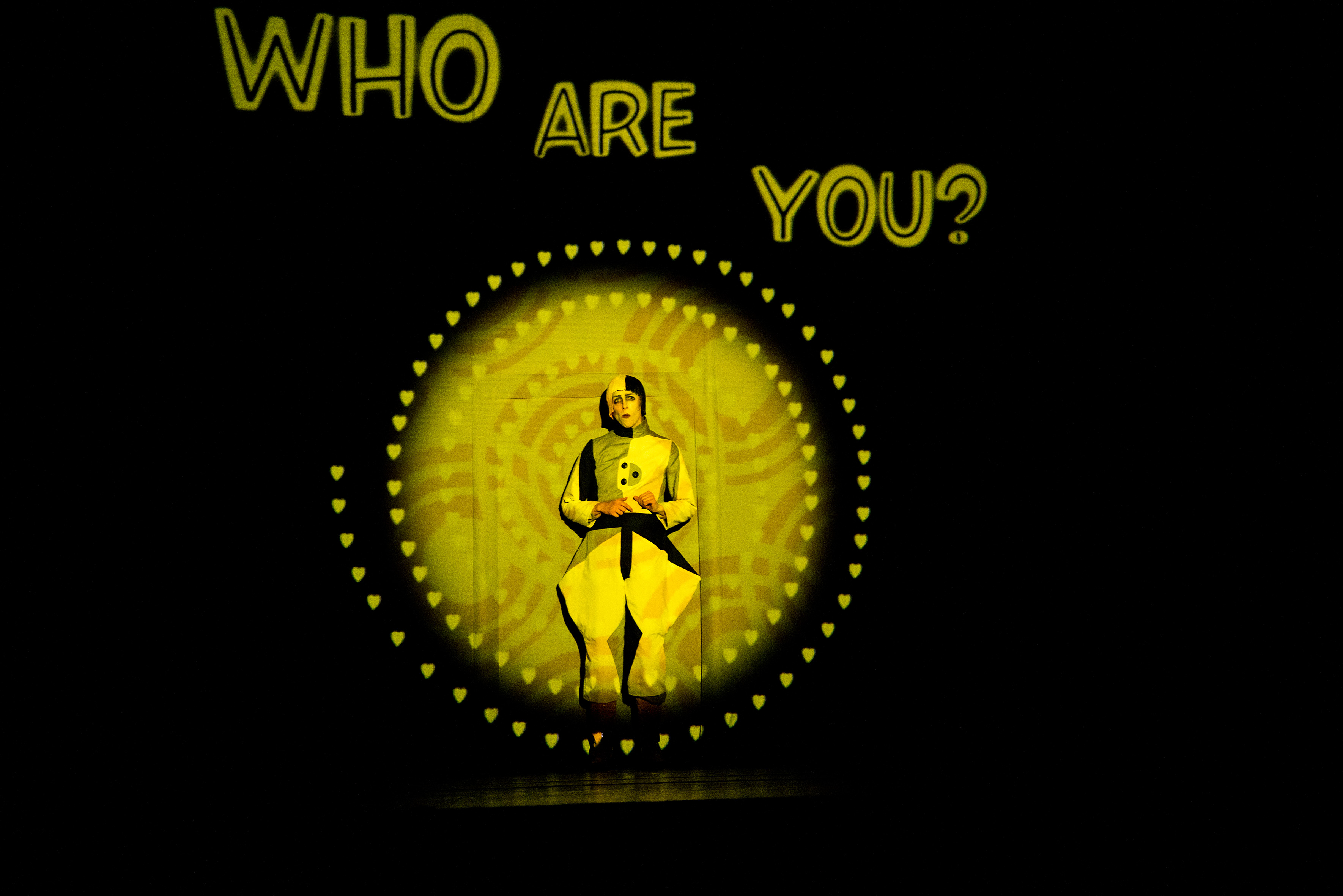 1927.Golem at the Salzburg Festival 2014 (Salzburger Landestheater)